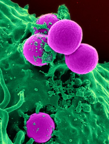 Scanning electron micrograph of a human neutrophil ingesting MRSA. The MRSA featured is the USA300 strain. Credit: NIAID